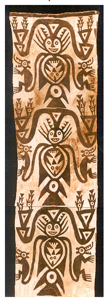 Panel, Chachapoyas Area, Peru Abisco or Pajaten Culture, 900 - 1400 AD 64 x 221 cm (2' 1" x 7' 3") -- CAT #15894 Three repeated motifs of a figure with a feline head, bird's tail and a fish in its stomach. Two appendages become the monkey's tails. A headdress holds two fish at either side. Parts have been replaced from a similar piece that was found with it and was probably originally attached to one side of this panel. (clearly visible). Painted, basket weave ( paired warps and wefts ), cotton